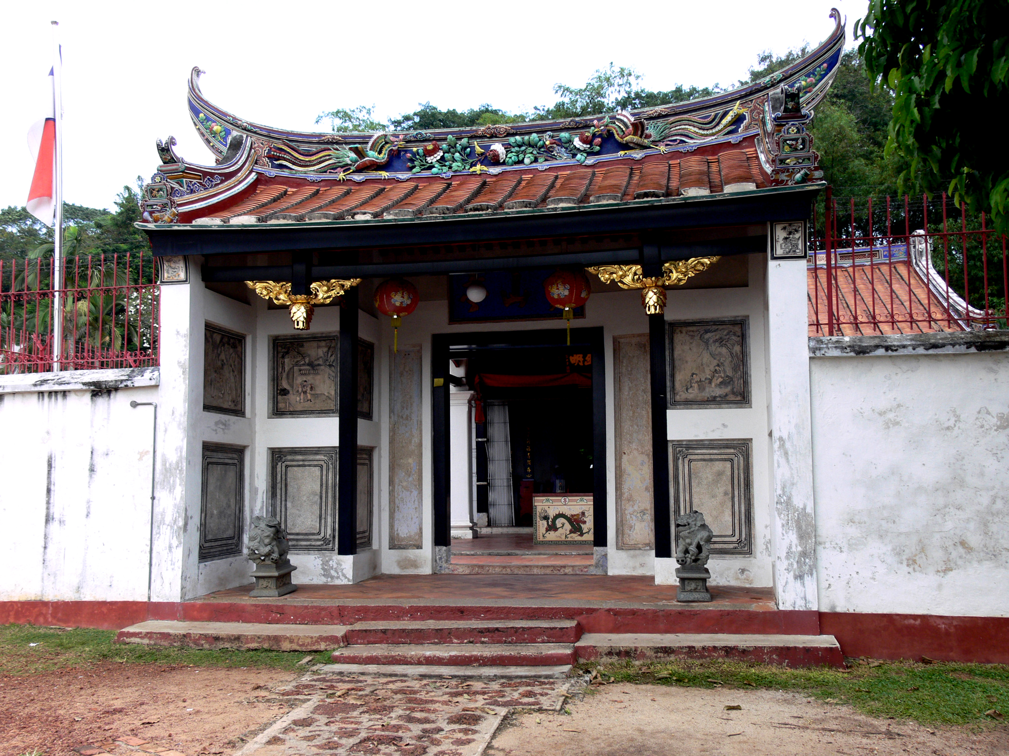 Zheng He temple in Malacca